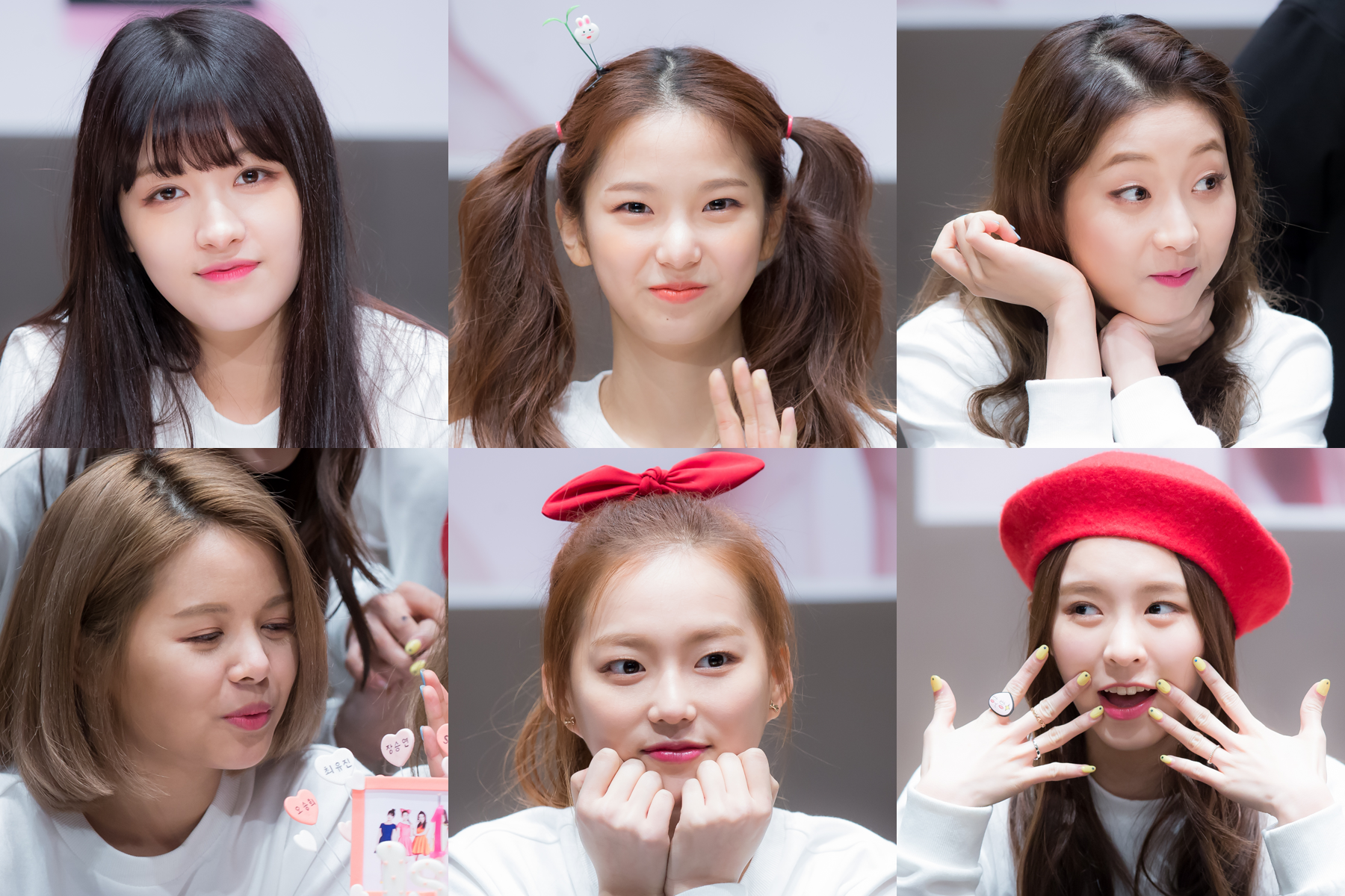 CLC at a fan-event, March 2016. (LR - First row: Seunghee, Yujin, Seungyeon. Second row: Sorn, Yeeun, Elkie; Eunbin not pictured)